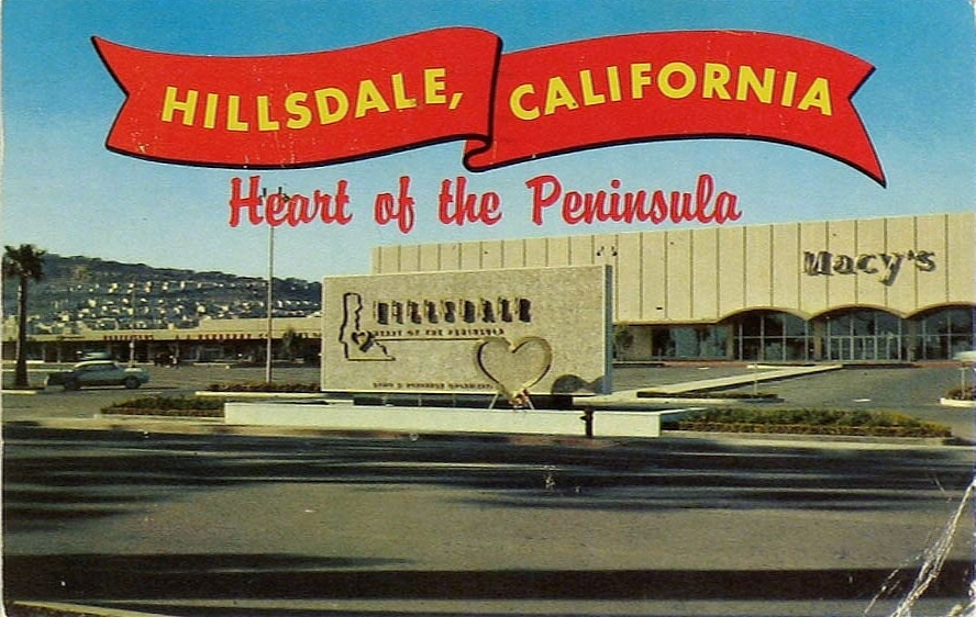 Color photocrome postcard of the Hillsdale Shopping Center, as seen from the front entrance sign by the Macy's anchor, depicted shortly after the shopping center opened in the mid-to-late 1950's. The postcard was postmarked from San Mateo, California on September 10, 1960 and the back of the postcard reads: HILLSDALE, CALIFORNIA Heart of San Francisco Peninsula Located on the famous "El Camino Real," just 20 miles from San Francisco. This beautiful shopping center offers the newest and most modern shops and stores. Color photo by Igor Stchogol PUB. BY SMITH NEWS CO., 1338 MISSION ST., S.F. CALIF. 5:SF-60 MIRRO-KROME ® CARD BY H.B. CROCKER CO., INC., SAN FRANCISCO, CALIF.